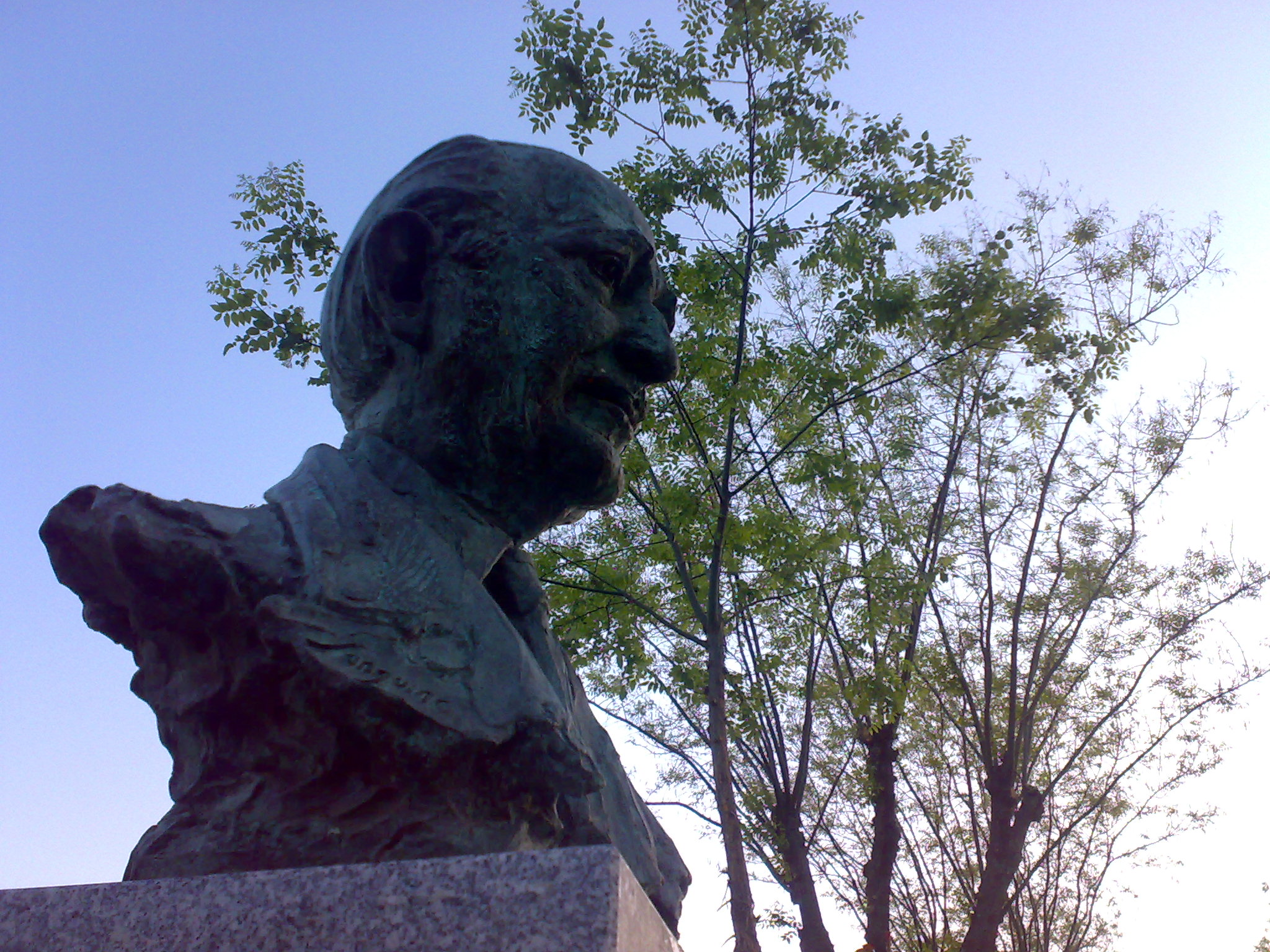 Bust of Antonio Buero Vallejo made by Luis Sanguino in Las Cruces Boulevard from Guadalajara, Spain.